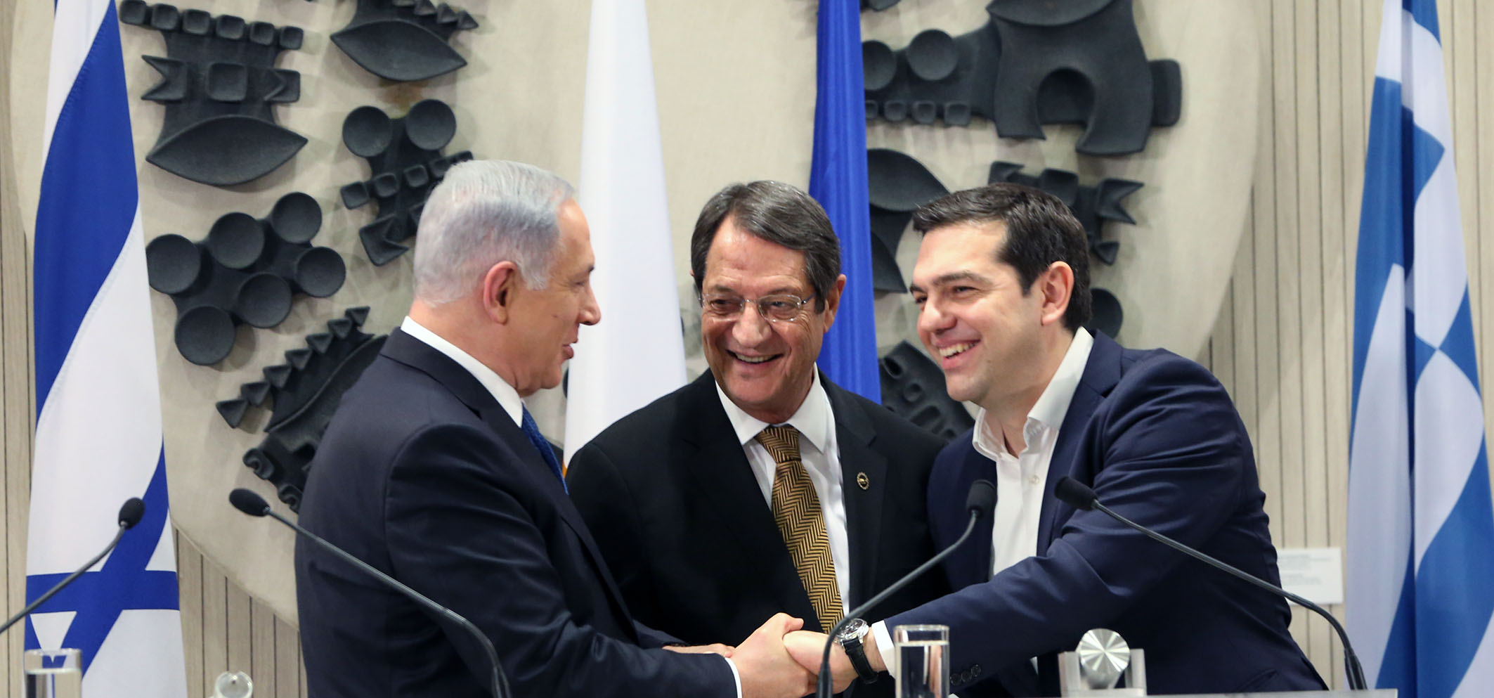 Israeli Prime Minister Benyamin Netanyahu (left), Cyprus President Nicos Anastasiades and Greek Prime Minister Alexis Tsipras - Jan 28, 2016, Presidential Palace, Nicosia, Cyprus